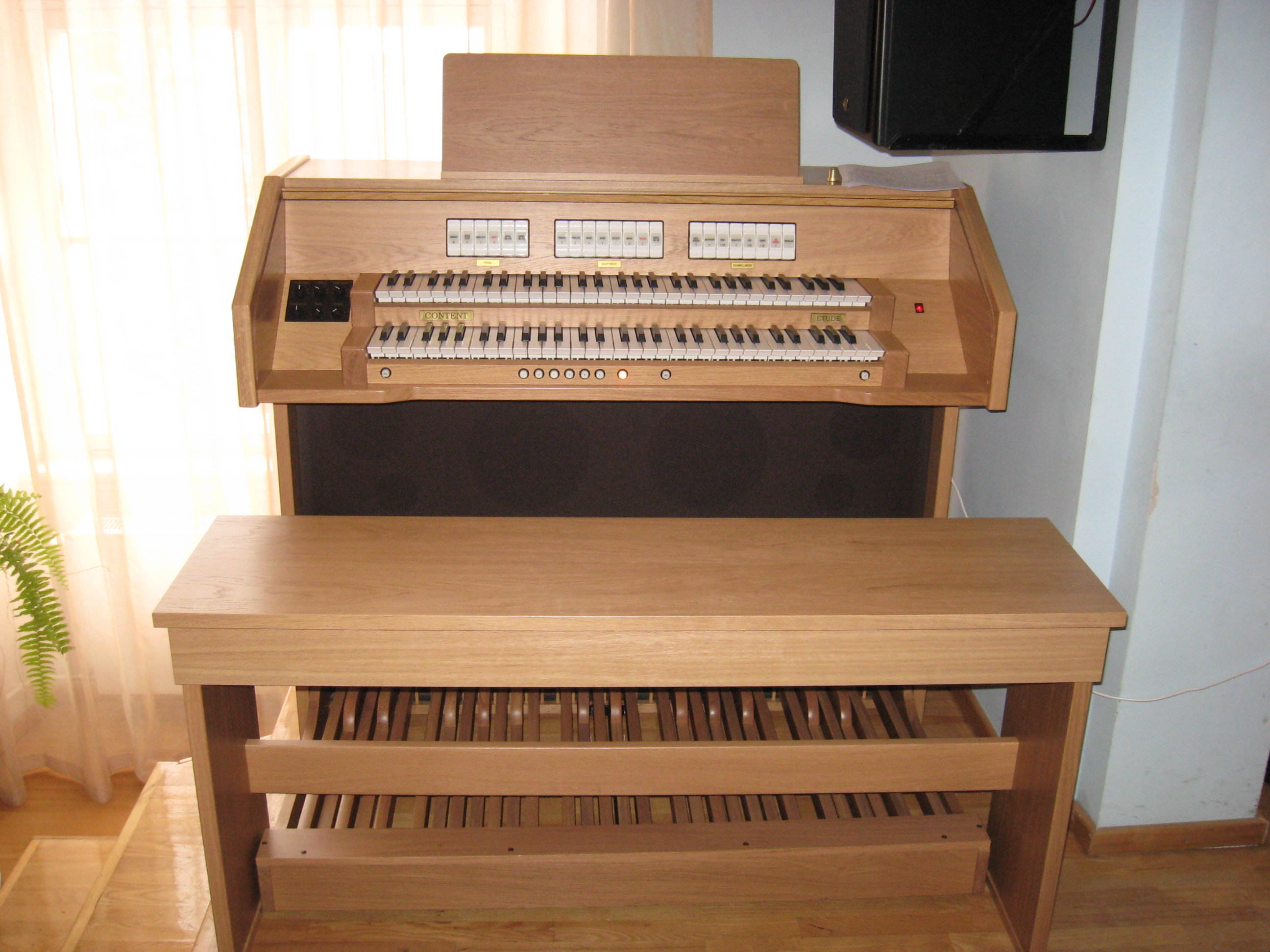 Electric organ in Valga Music School. Content Etude 30